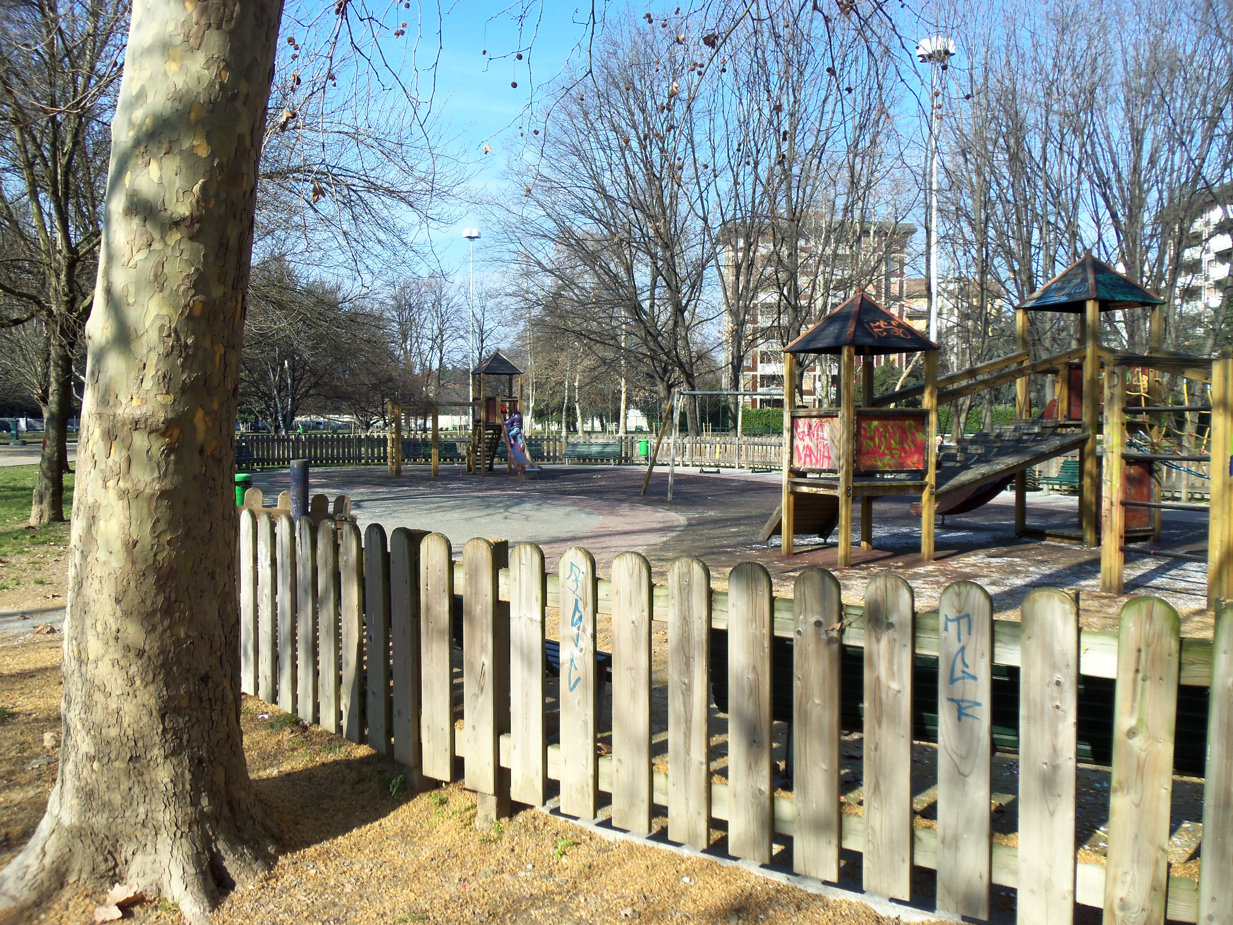 Milano, zona 6. Alberto Moravia gardens, One of children's corners